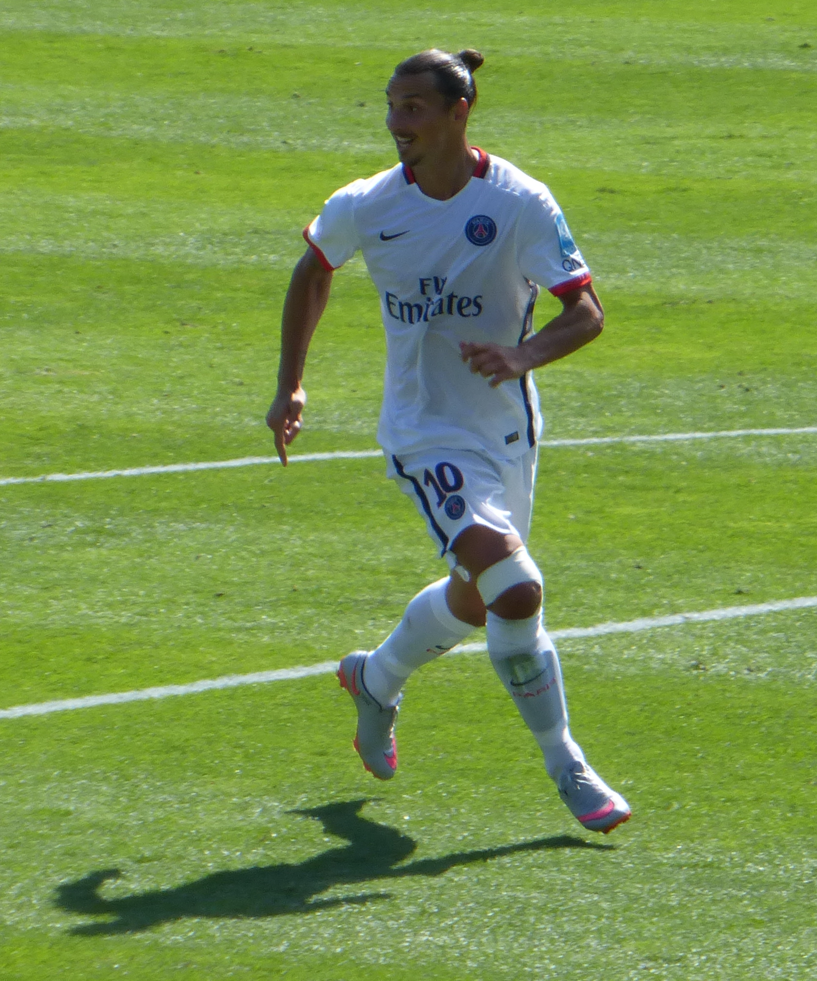 Zlatan Ibrahimović playing for Paris Saint-Germain in a match against Olympique Lyon in the 2015 Trophee des Champions.